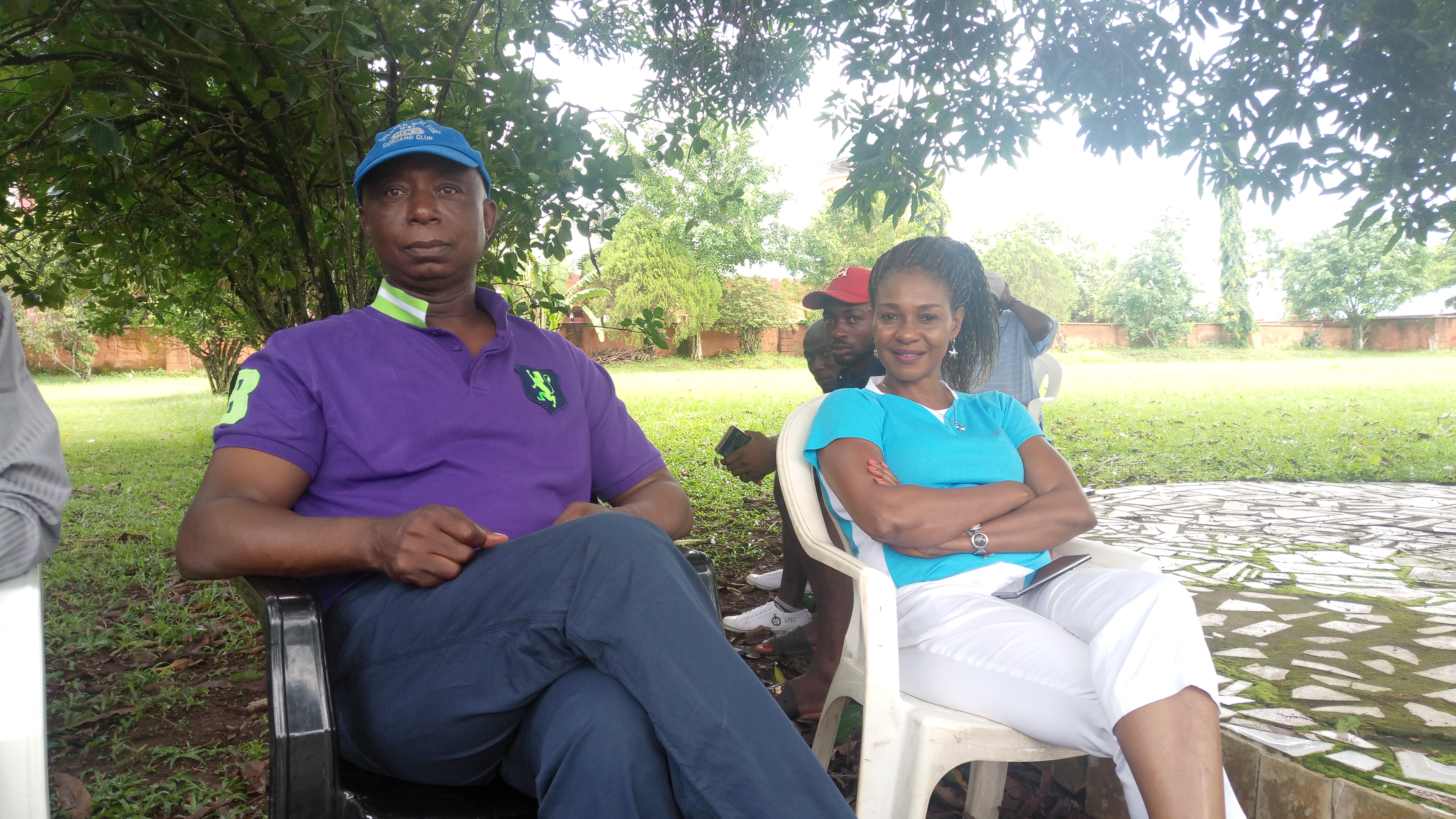 Mary Onyali-Omagbemi, and lawyer, Ned Nwoko, at Idumuje-Ugboko during the Ned Nwoko Golf Classic Tournament